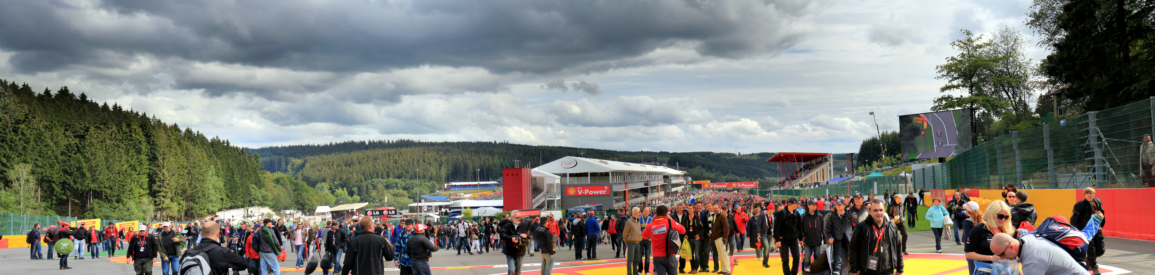 Spa after finish, 2011 Belgian Grand Prix.